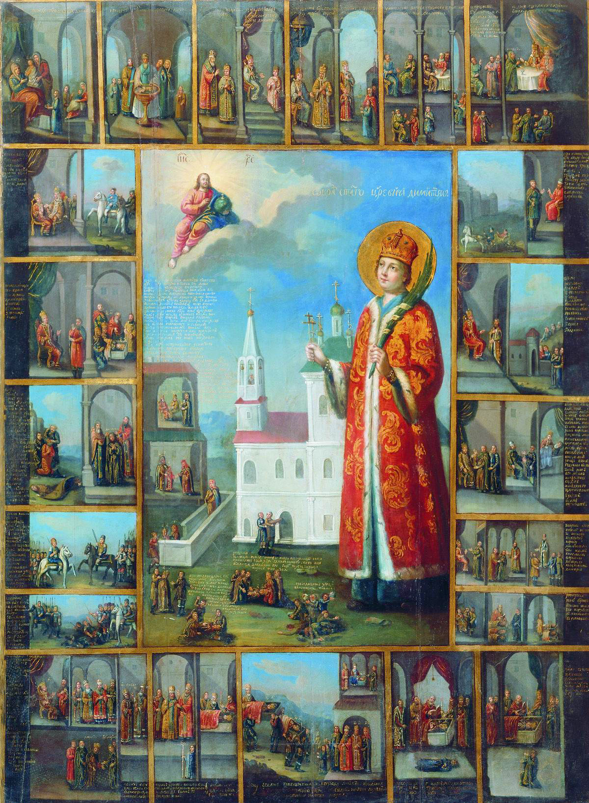 Tsarevitch Dmitrij